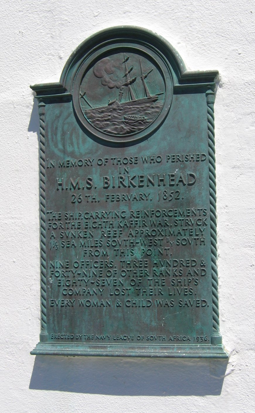 A plaque commemorating the sinking of the HMS Birkenhead in 1845, just off the coast of Gansbaai, South Africa. Located on the side of the Danger Point lighthouse.